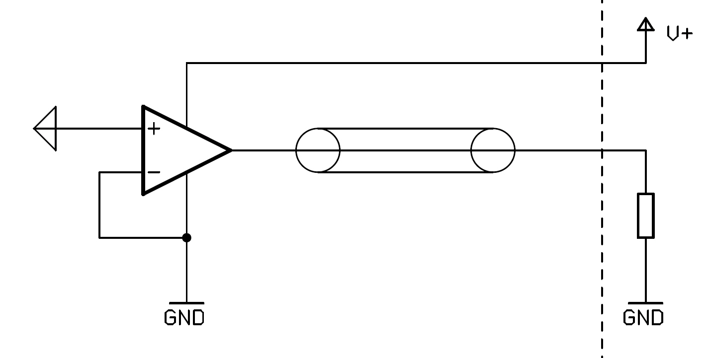 Schematic of an active probe